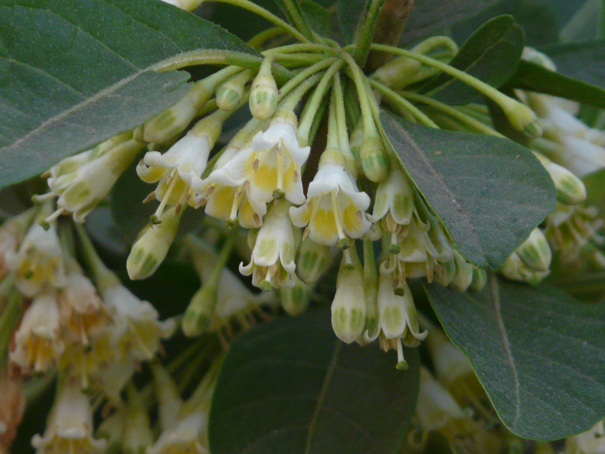 Solanaceae (solanum, nightshade, or potato family) » Acnistus arborescens Acnistus -- pronunciation / meaning not known to me ar-bo-RES-senz -- meaning, tree-like commonly known as: gallinero, hollowheart, wild tobacco Native to: Central and South America, and the Caribbean References: Trade Winds Fruit • University of Massachusetts Boston • US Forest Service